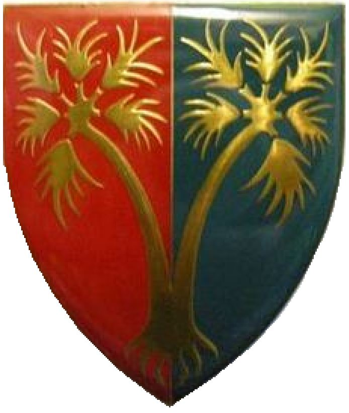 SWATF 101 Workshop Grootfontein